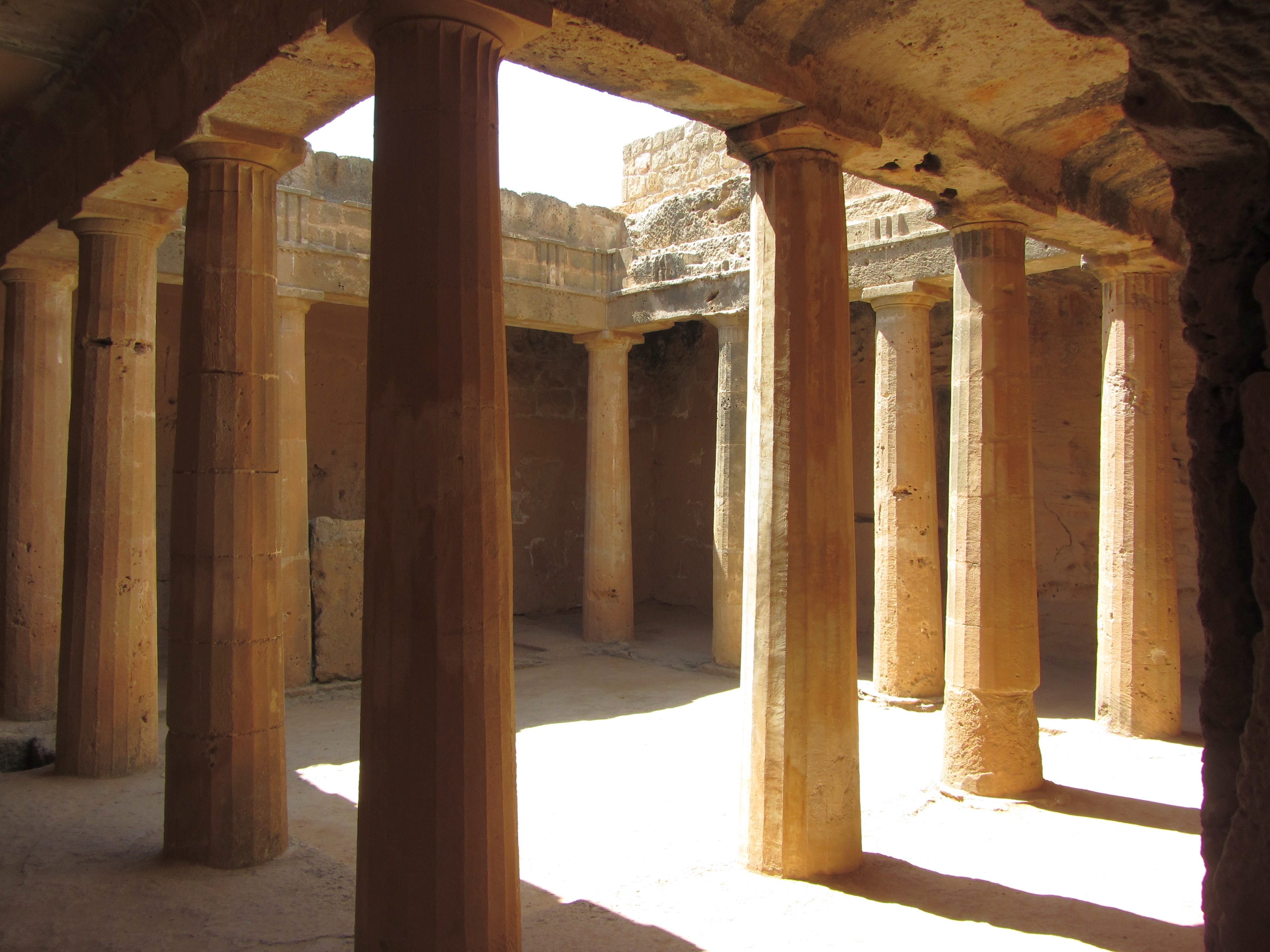 Paphos (Cyprus). Tombs of the Kings: Tomb 3, peristyle atrium.